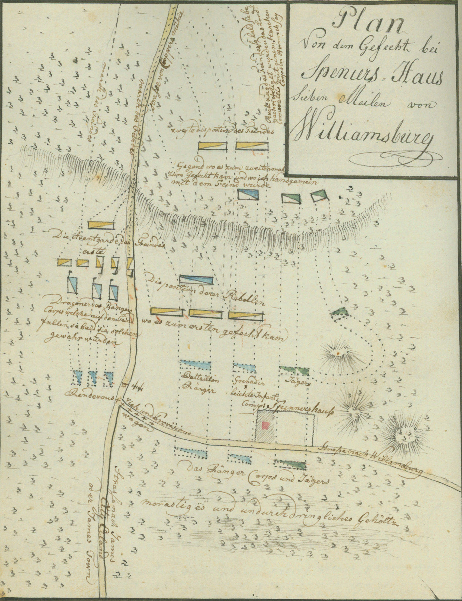 A German map depicting the action at the Battle of Spencer's Ordinary. The caption reads "Plan von dem Gefecht bei Spensers Haus Sieben Meilen von Williamsburg", or "Plan of the battle at Spencer's House Seven Miles from Williamsburg". American positions are in blue, British positions in yellow.